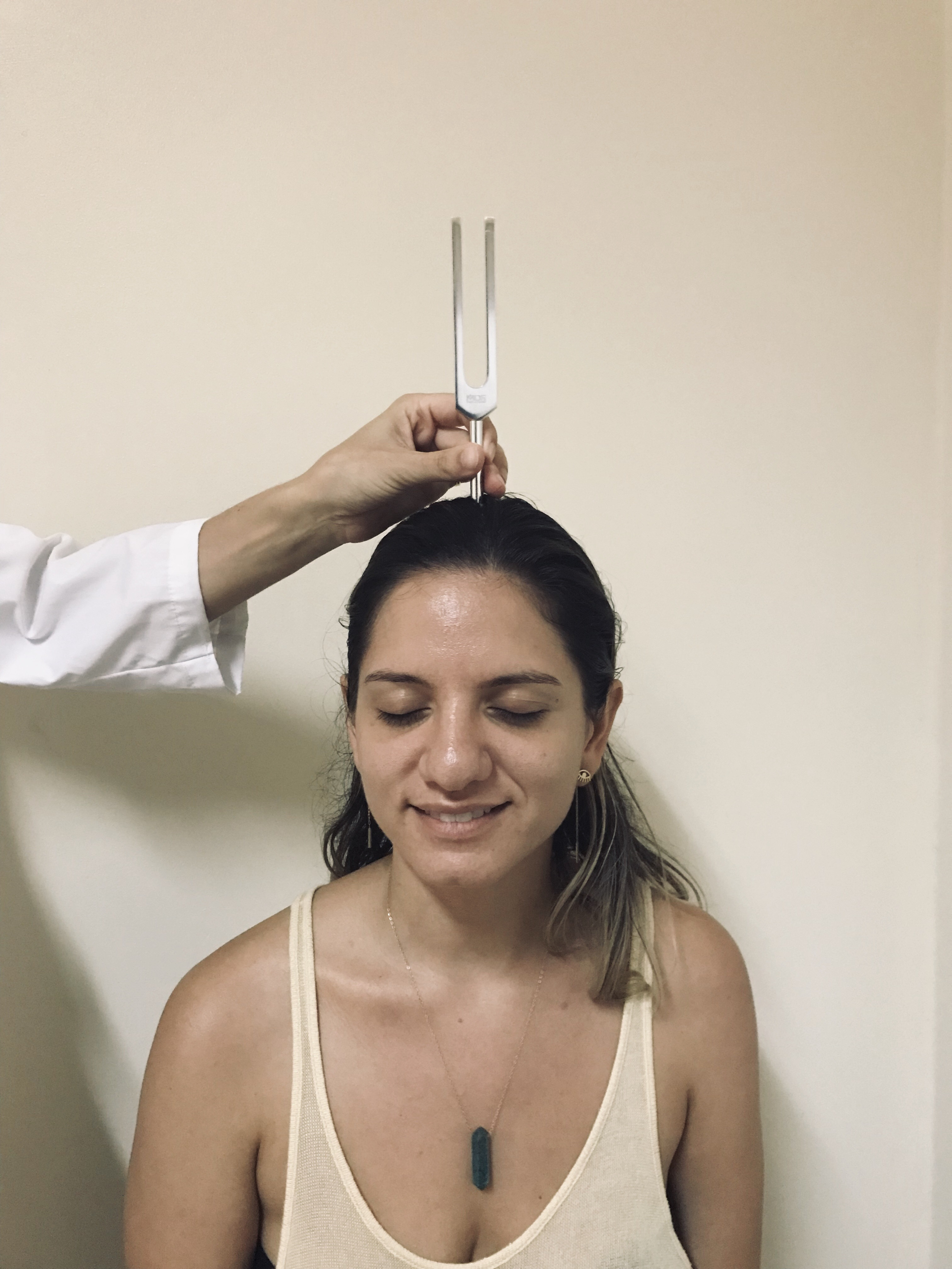 Weber test being performed on a volunteer. The tuning fork is struck prior to placement on the apex of the head. The examinee feels no pain.